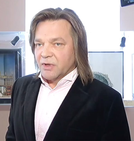 Oleksiy Bohdanovych, Ukrainian actor